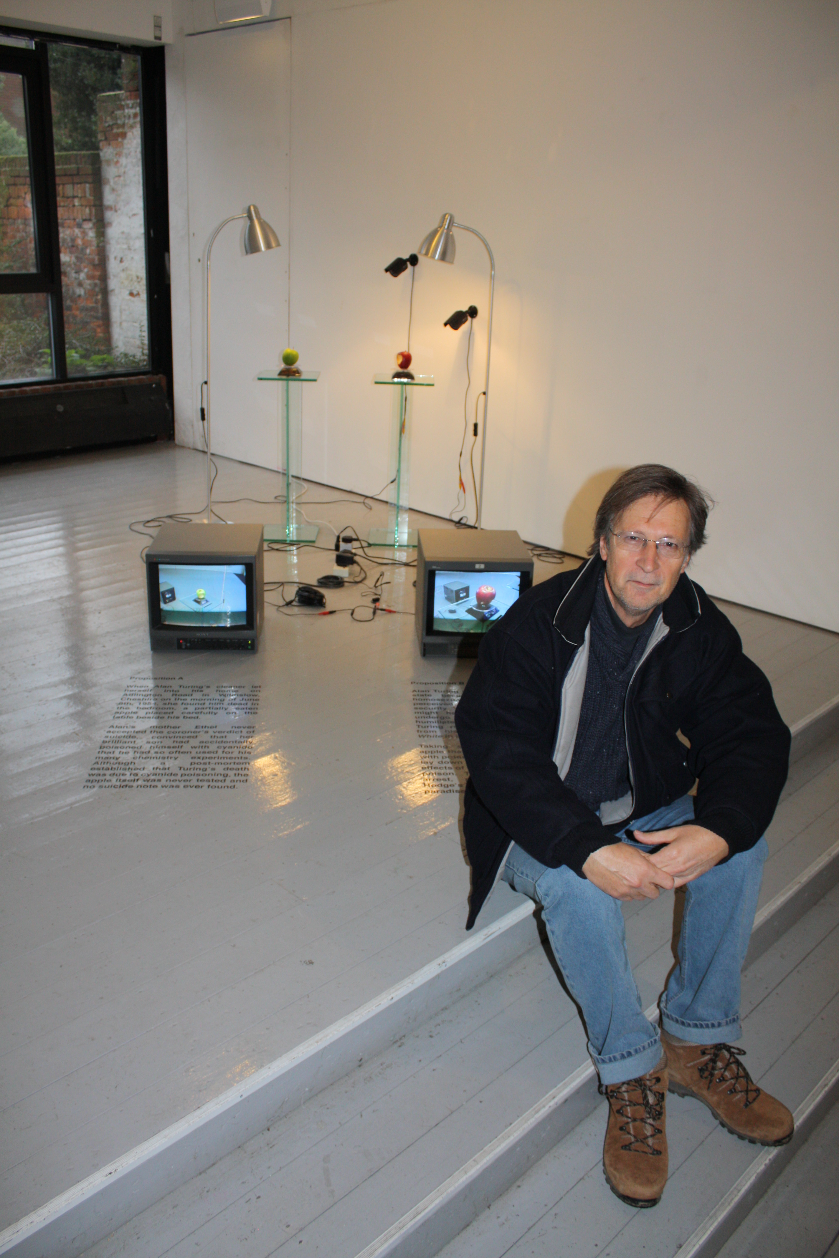 Chris Meigh-Andrews in front of his work Turing Test during his exhibition Sculpting with Light & Time: Video and Installations 1978-2014 at The Minories Galleries